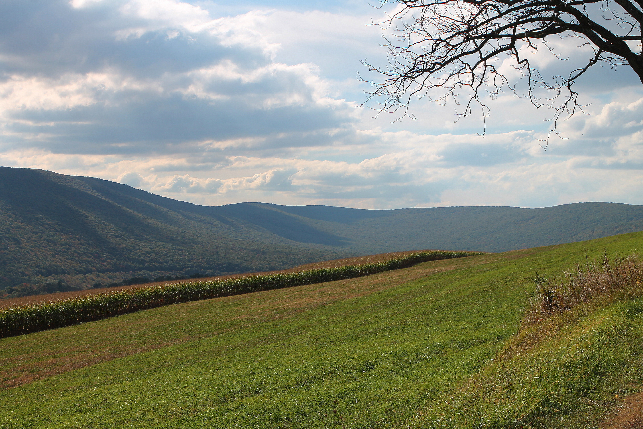 Catawissa Mountain from Pennsylvania Route 339 in southern Beaver Township, Columbia County, Pennsylvania